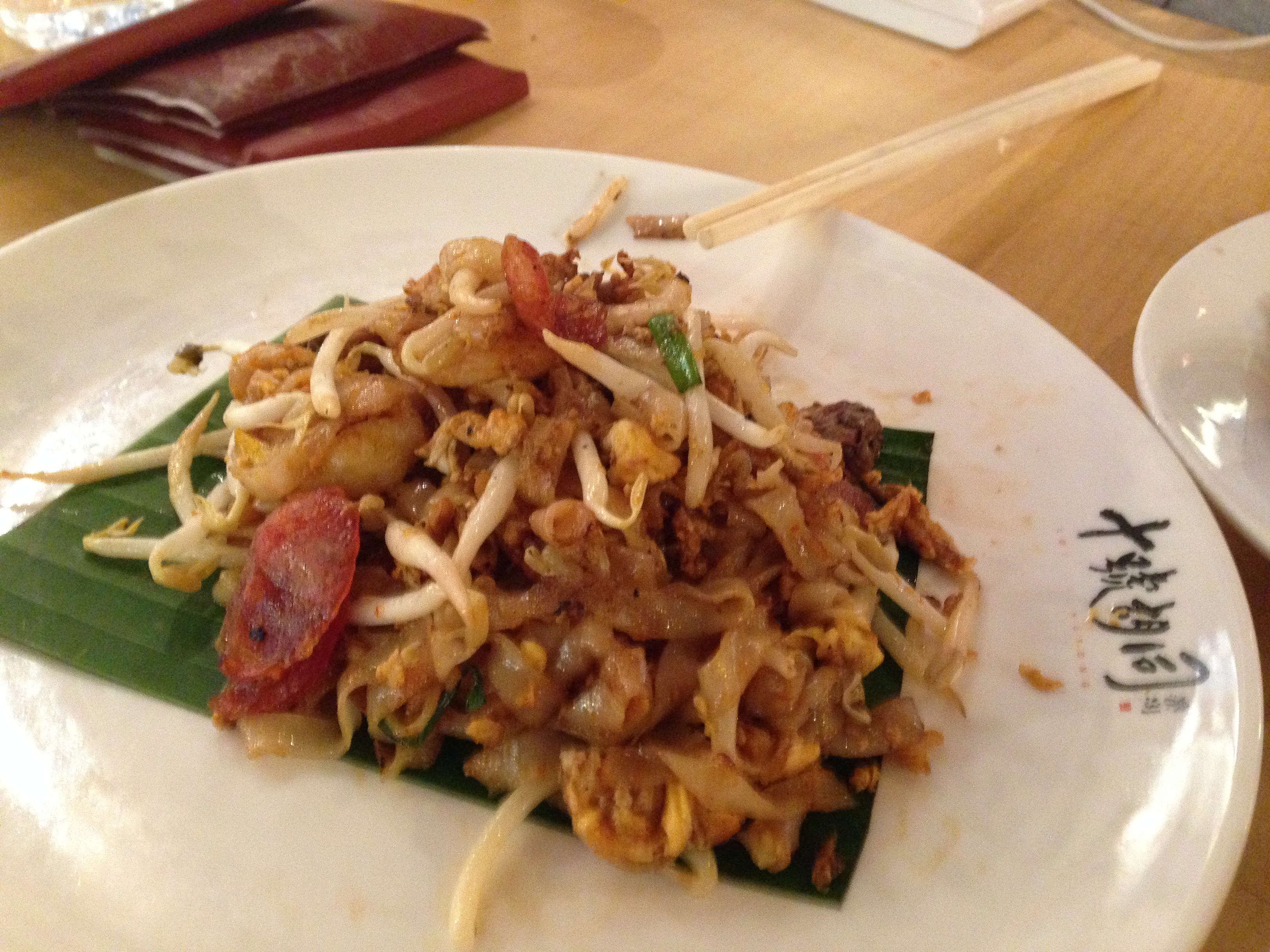 Penang Char Kway Teow Sold in Lot 10